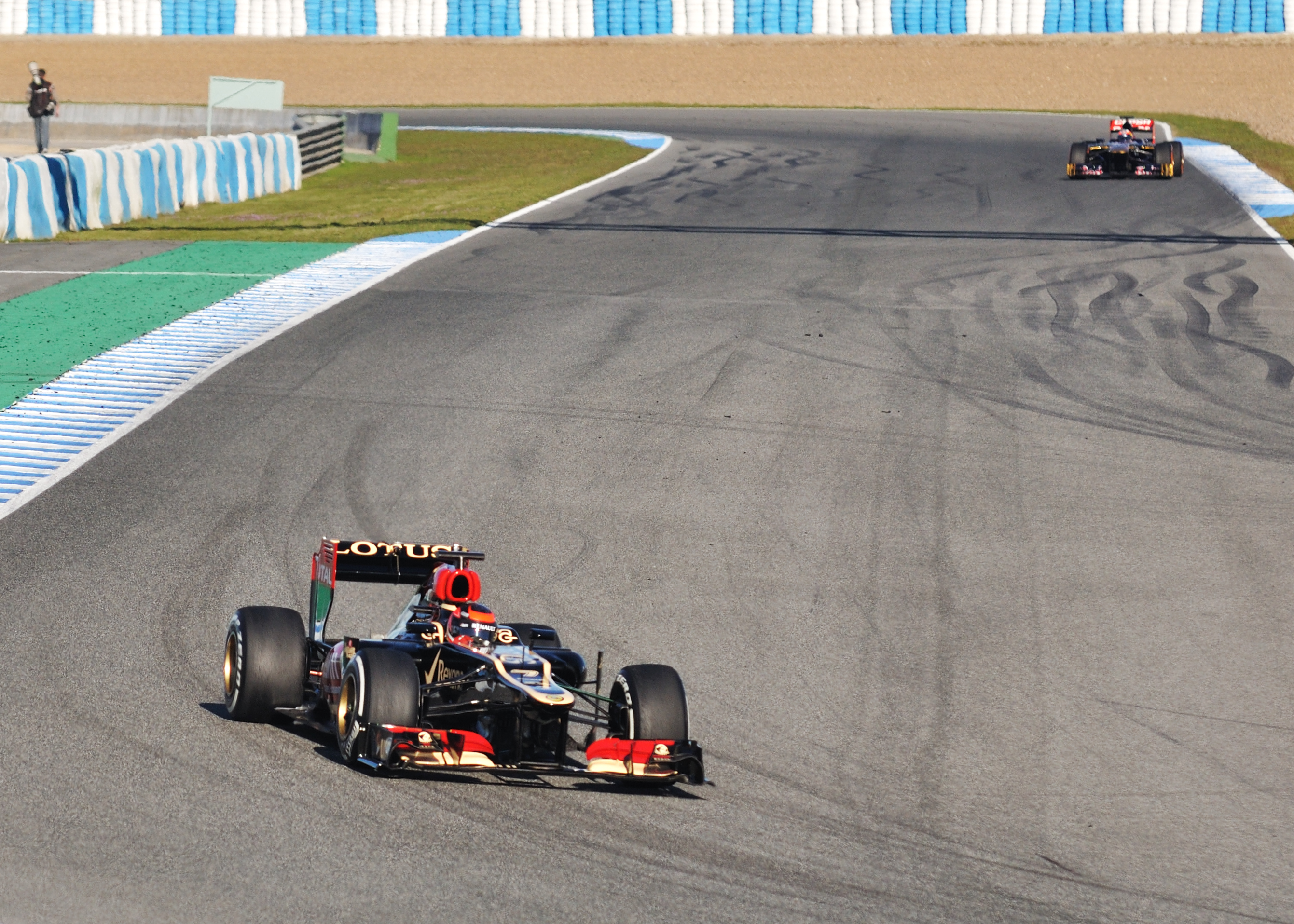 Kimi Raikkonen enters the final corner on another lap of testing on day four at the Circuit de Jerez. He's followed by Jean Eric Vergne in the Toro Roso.